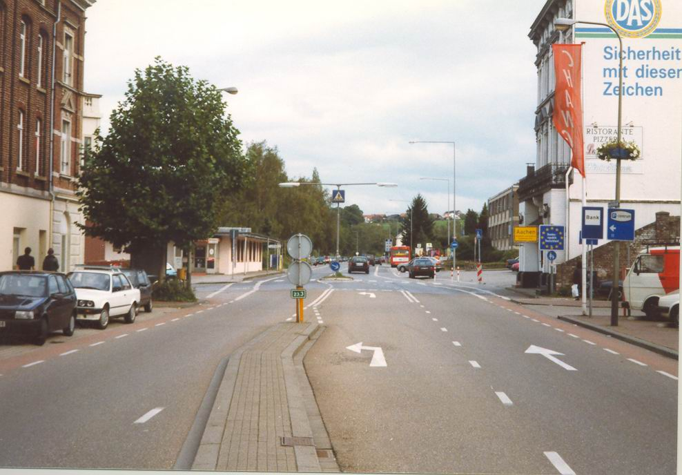 Border Netherlands-Germany, at the EU sign. The German road 1 begins here, near Aachen and the Dutch city Vaals.